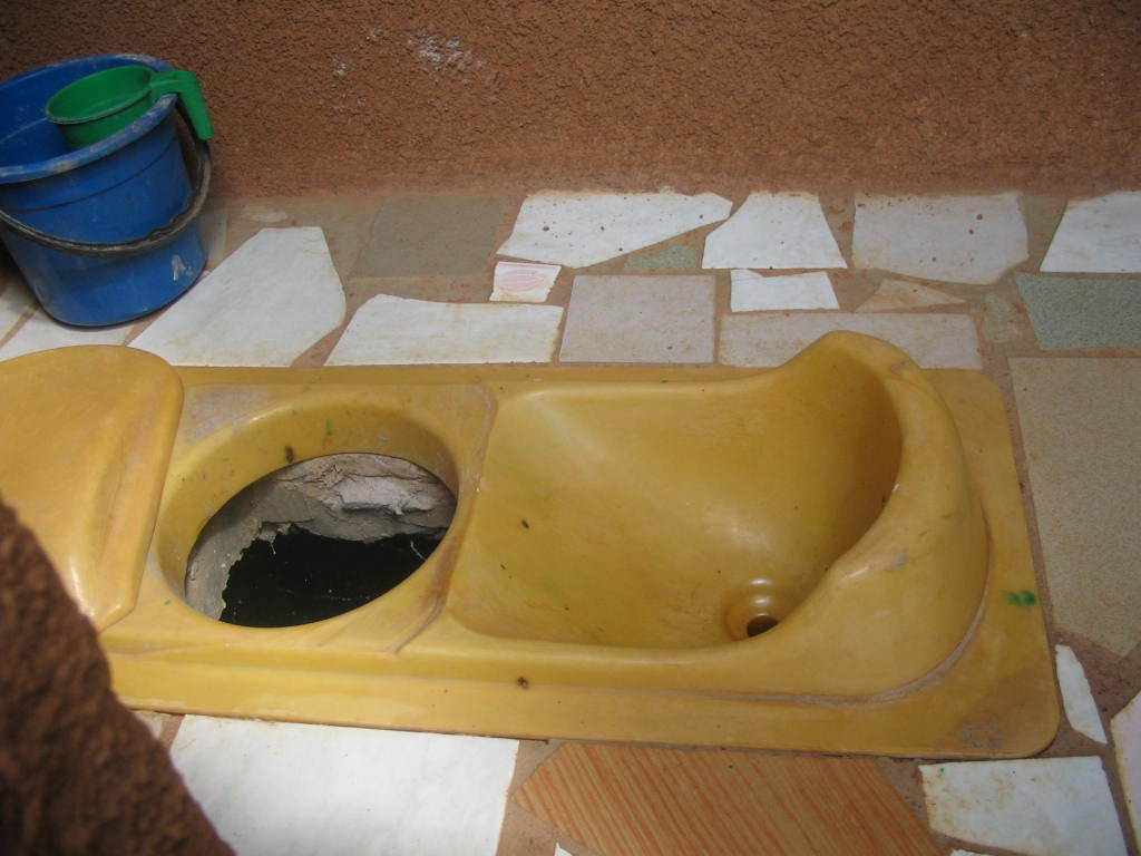 Plastic squatting pan for urine diversion dehydration toilet. By CREPA, Burkina Faso. Photo from Oct 2006 (E. Muench).